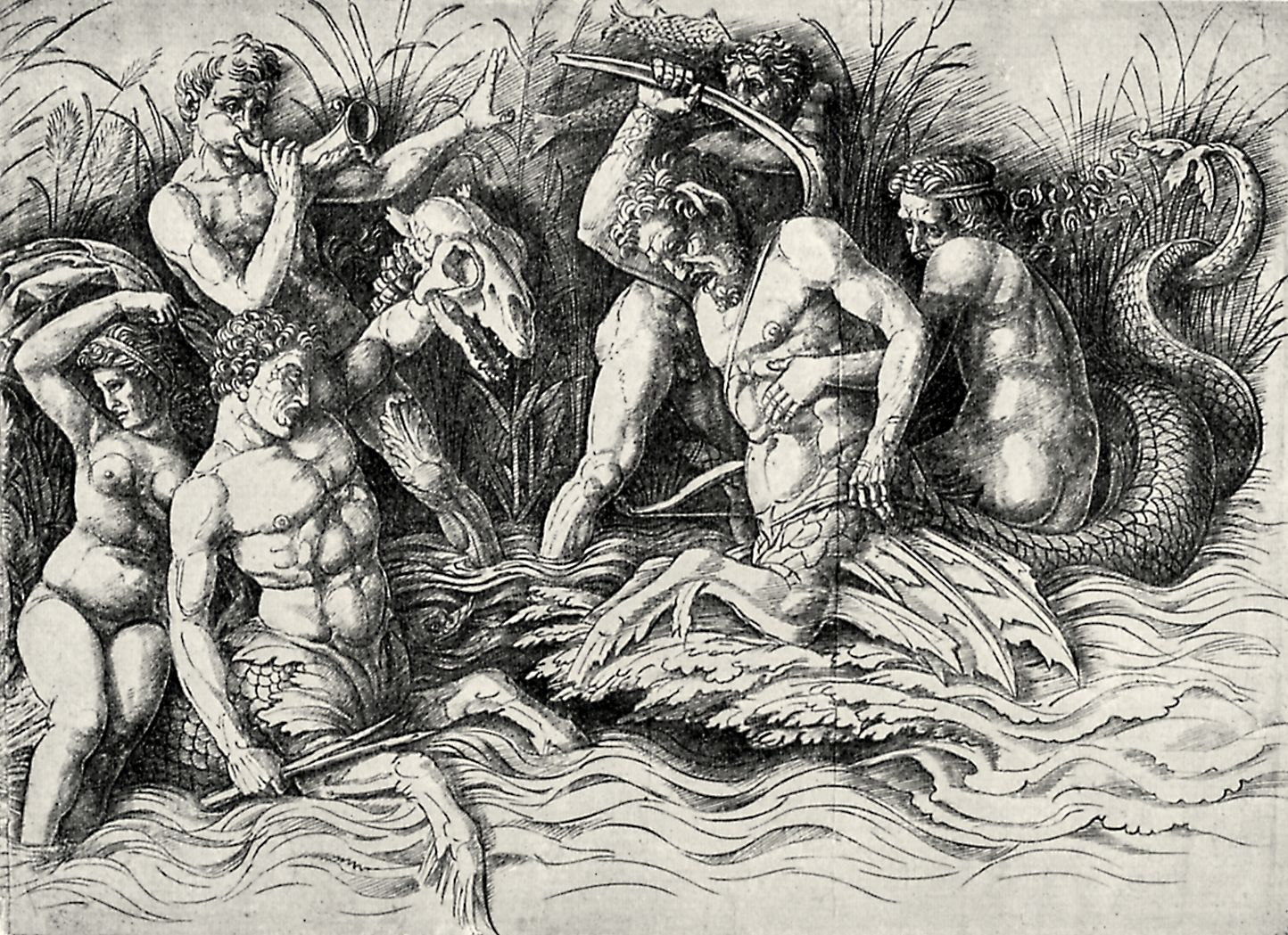 Battle of the sea gods (left and right part)